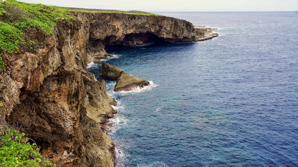 The beauty here on the northern tip of Saipan is muted by the sad story of Banzai Cliff